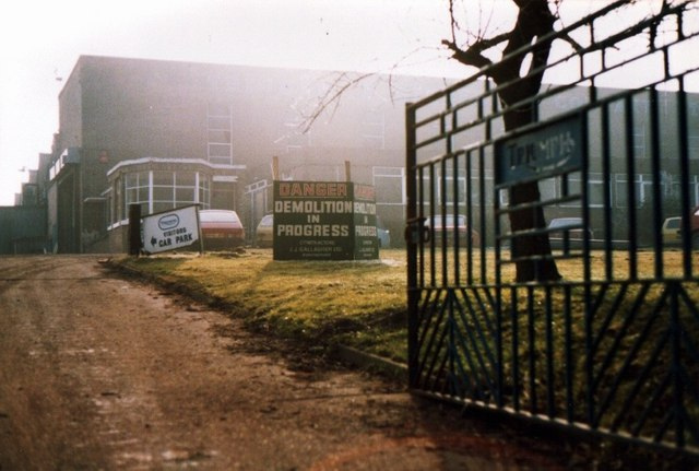 The demolition of the Triumph Motorcycles factory Photograph taken on a bright winter day in January, to record the demolition of the Triumph Motorcycles factory. It made way for a housing estate with roads named Bonneville Close and Daytona Drive.